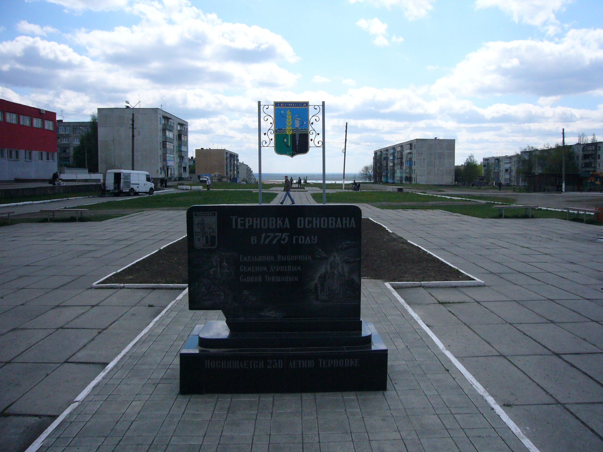 Monument to Founders of Ternivka in Memory of 230th Anniversary of Ternivka, Dnipropetrovsk Oblast, Ukraine